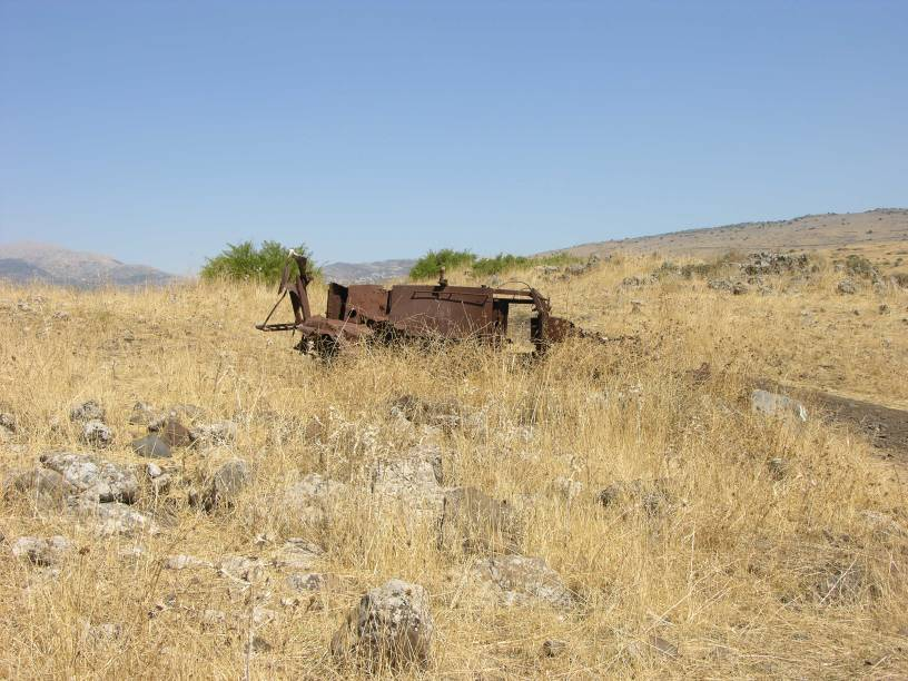 Vehicle left of the Six-day-war 1967 on the slopes of Givat HaEm, Upper Galilee, Israel